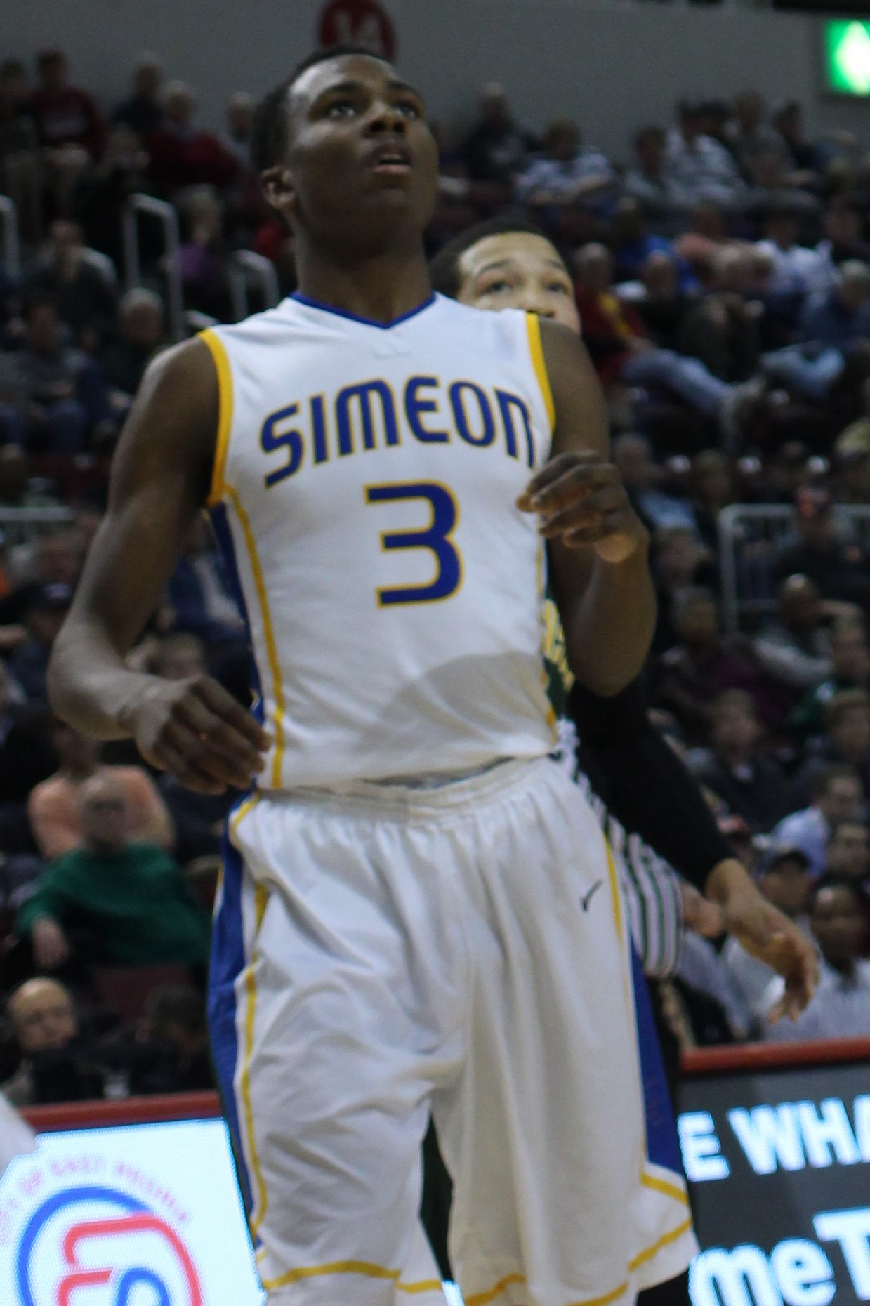 Donte Ingram (with Jalen Brunson looking over his shoulder) in the 2013 Illinois High School Association boys basketball finals